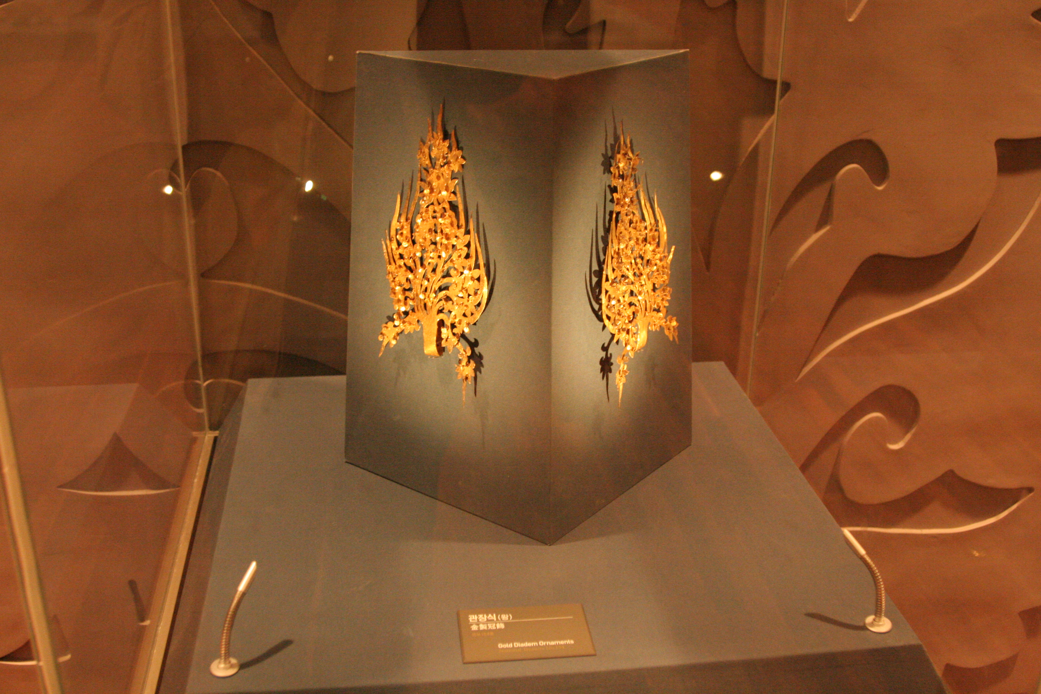 Gold diadem ornaments found in King Muryeong's tomb. They were worn on a silk cap afixed to the sides. They are also designated as a National Treasure of Korea.